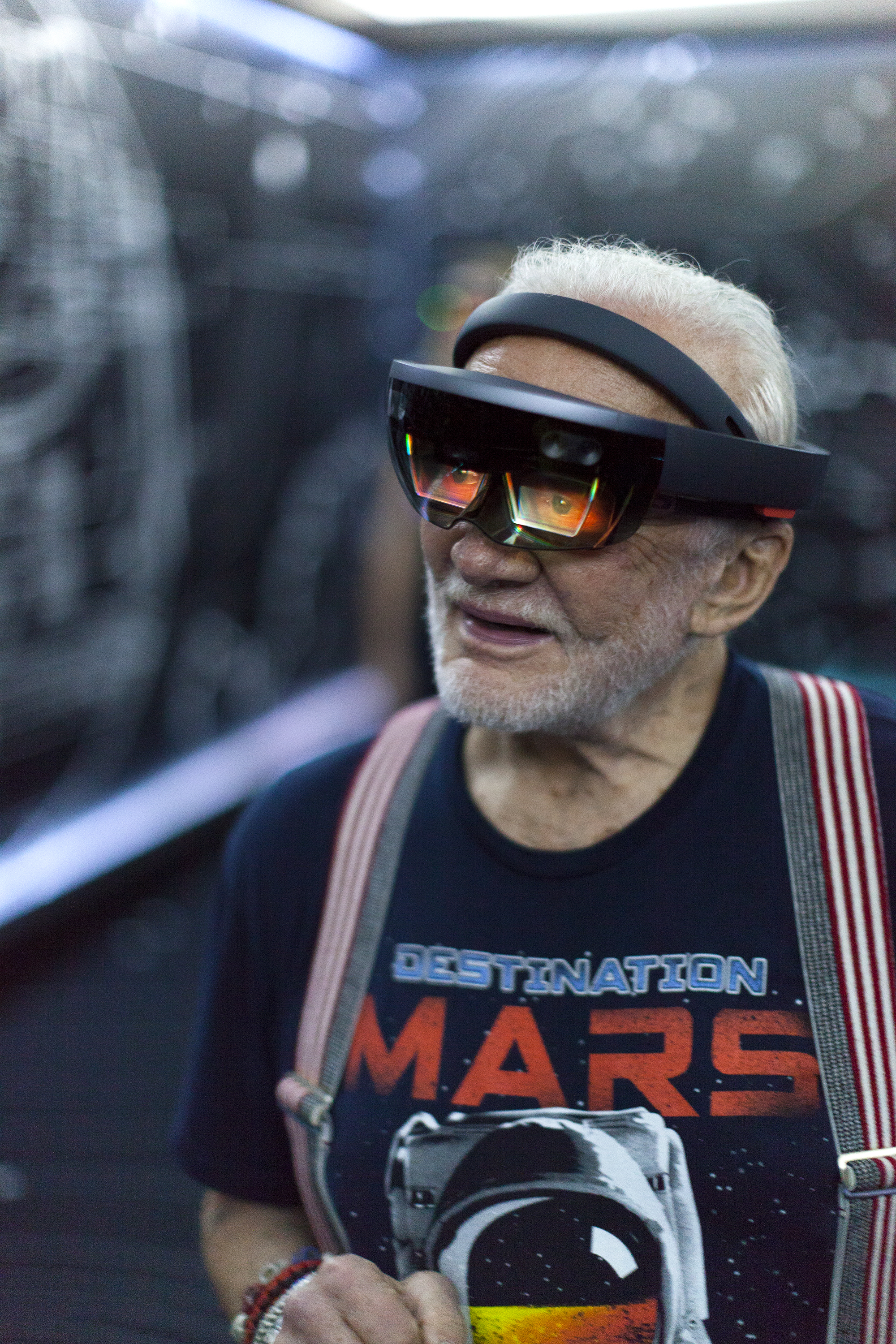 Apollo 11 astronaut Buzz Aldrin tries out Microsoft HoloLens mixed reality headset during a preview of the new Destination: Mars experience at the Kennedy Space Center Visitor Complex. Destination: Mars gives guests an opportunity to “visit” several sites on Mars using real imagery from NASA’s Curiosity Mars Rover. Based on OnSight, a tool created by NASA’s Jet Propulsion Laboratory in Pasadena, California, the experience brings guests together with a holographic version of Aldrin as they are guided to Mars using the headset. Photo credit: NASA/Charles Babir NASA image use policy.